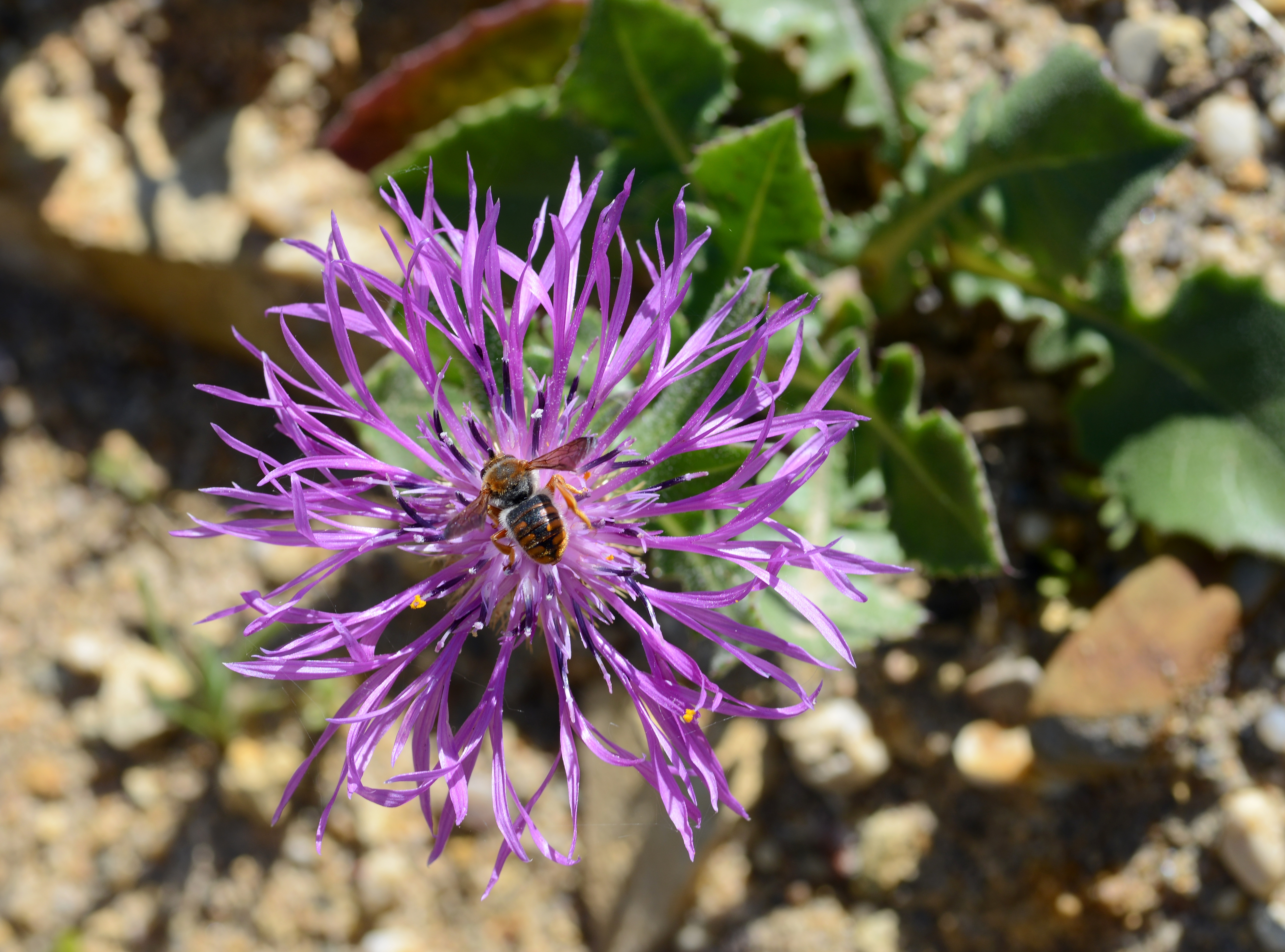 Flower of a Centaurea sphaerocephala